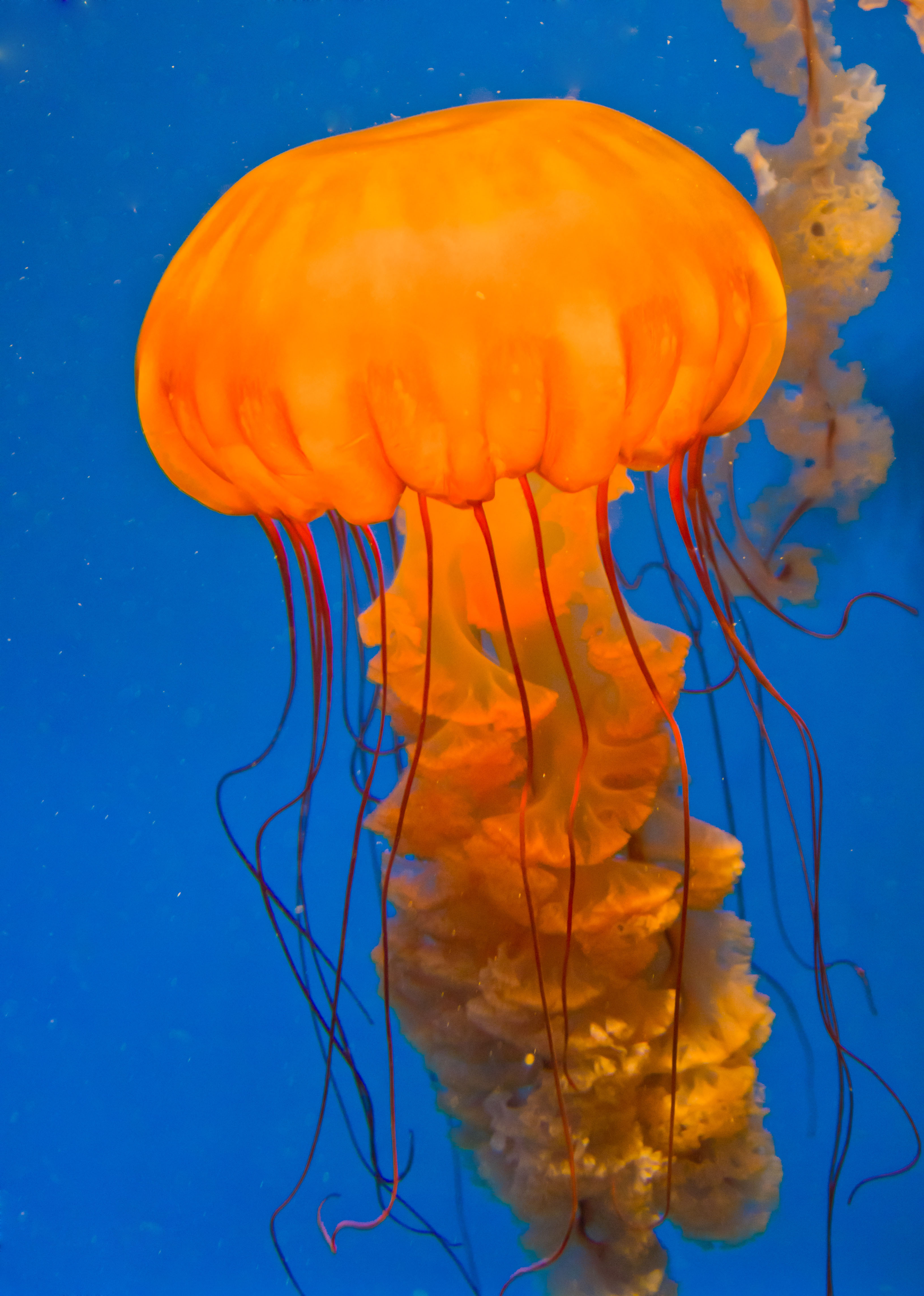 Chrysaora quinquecirrha in Birch Aquarium